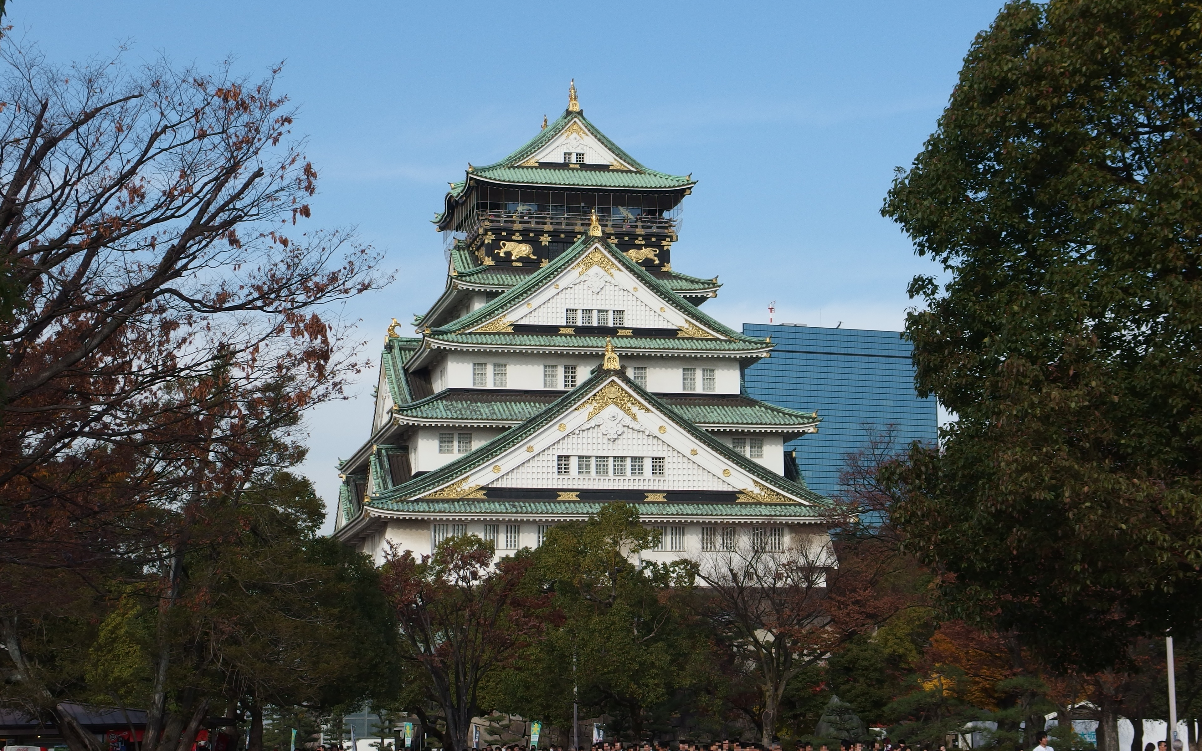 Osaka Castle, Osaka, Osaka Prefecture, Japan